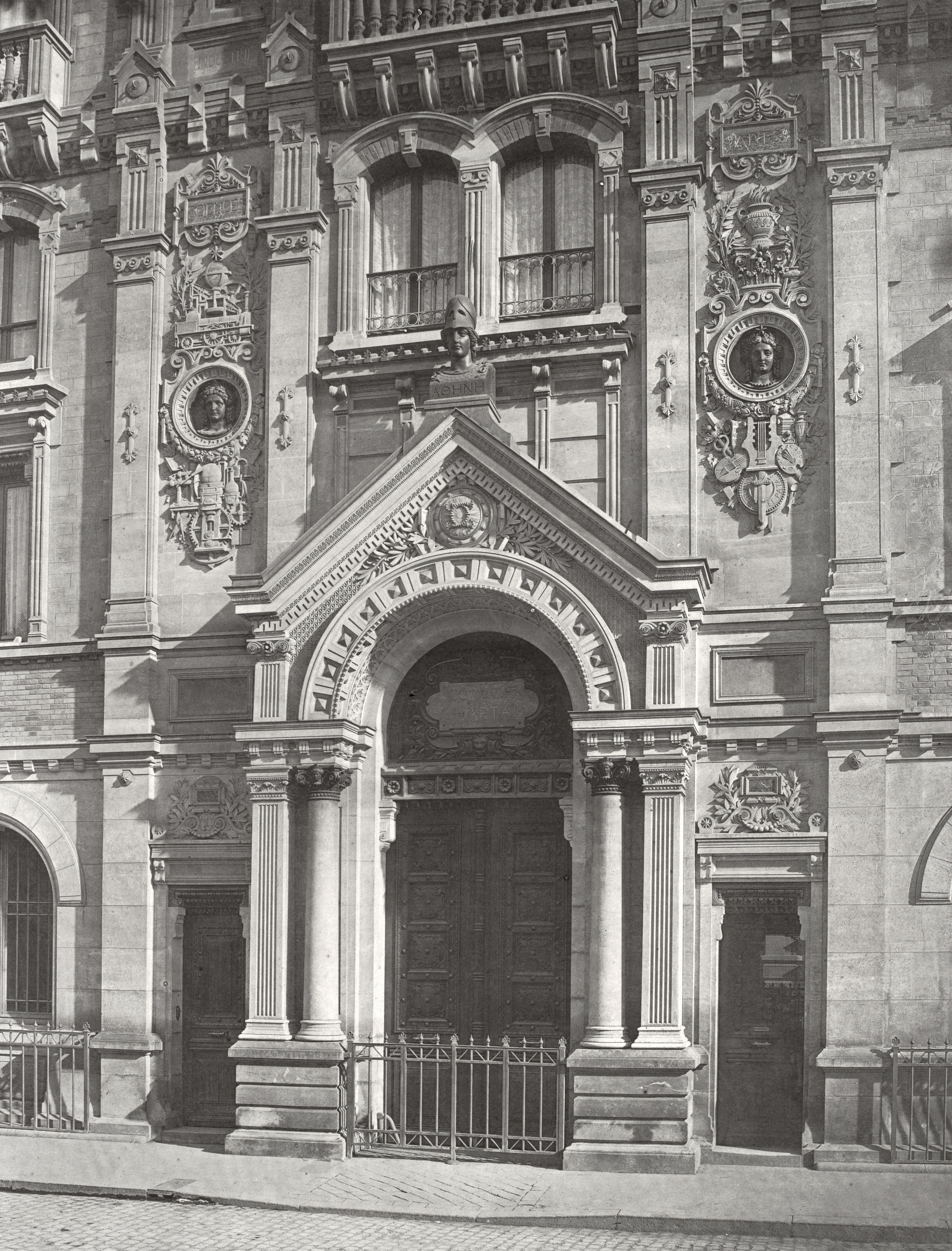 Shows detail of facade of school with arched portico flanked by engaged pillars supporting a pediment, railing gate in front of front door.